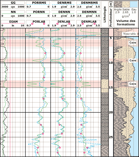 Interpreted well log of the well of Finges (Quaternary).